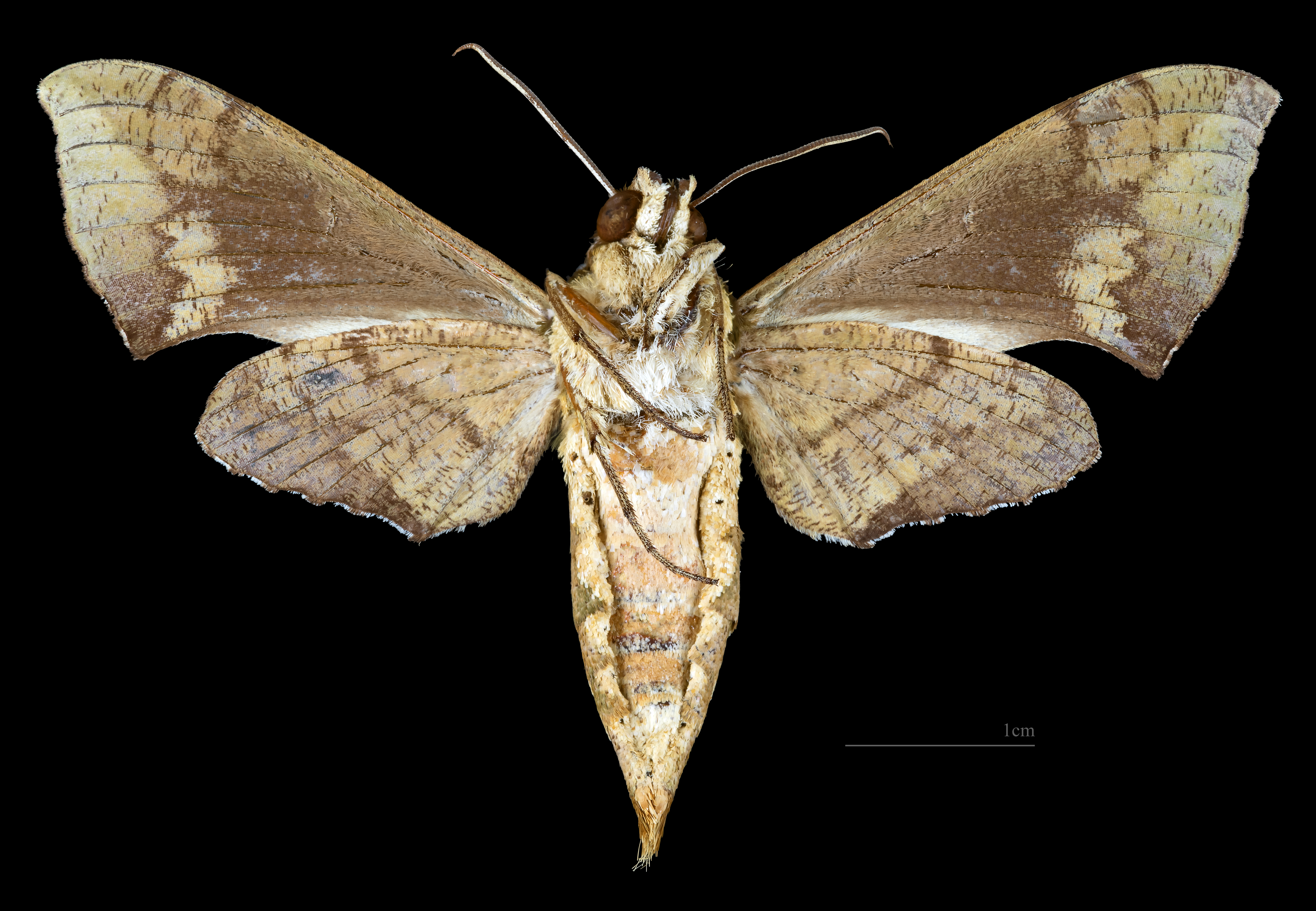 Xylophanes depuiseti - △ Ventral side Collection of the Mathematician Laurent Schwartz